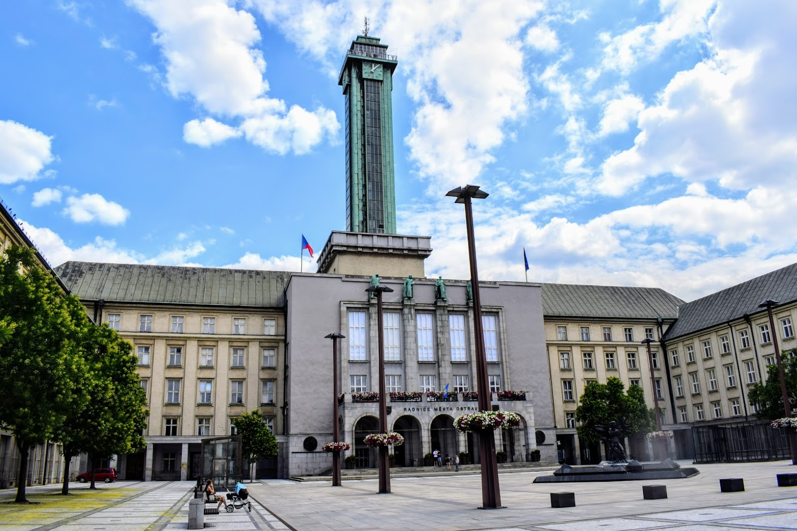 Town hall in Ostrava